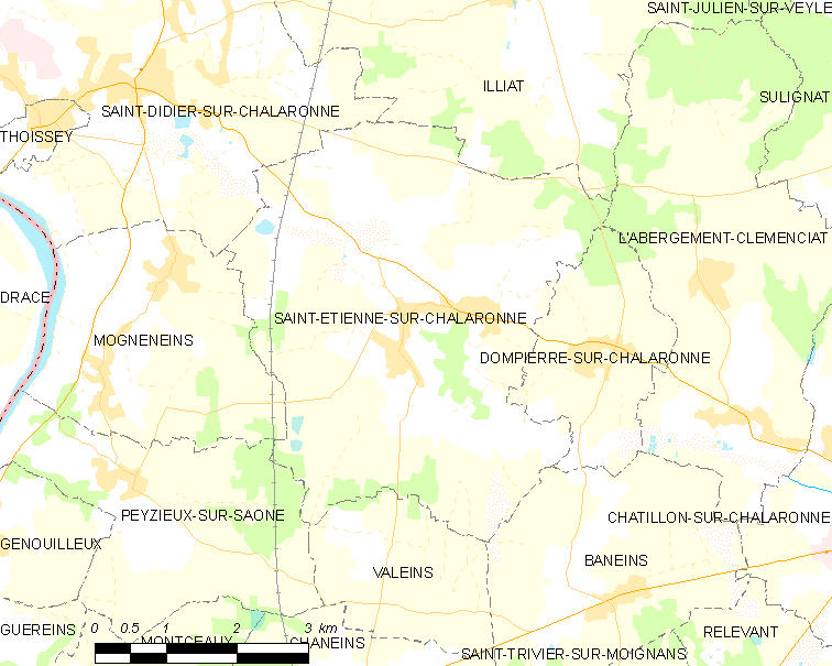 Map of French commune: Saint-Étienne-sur-Chalaronne Map commune FR insee code 01351.png